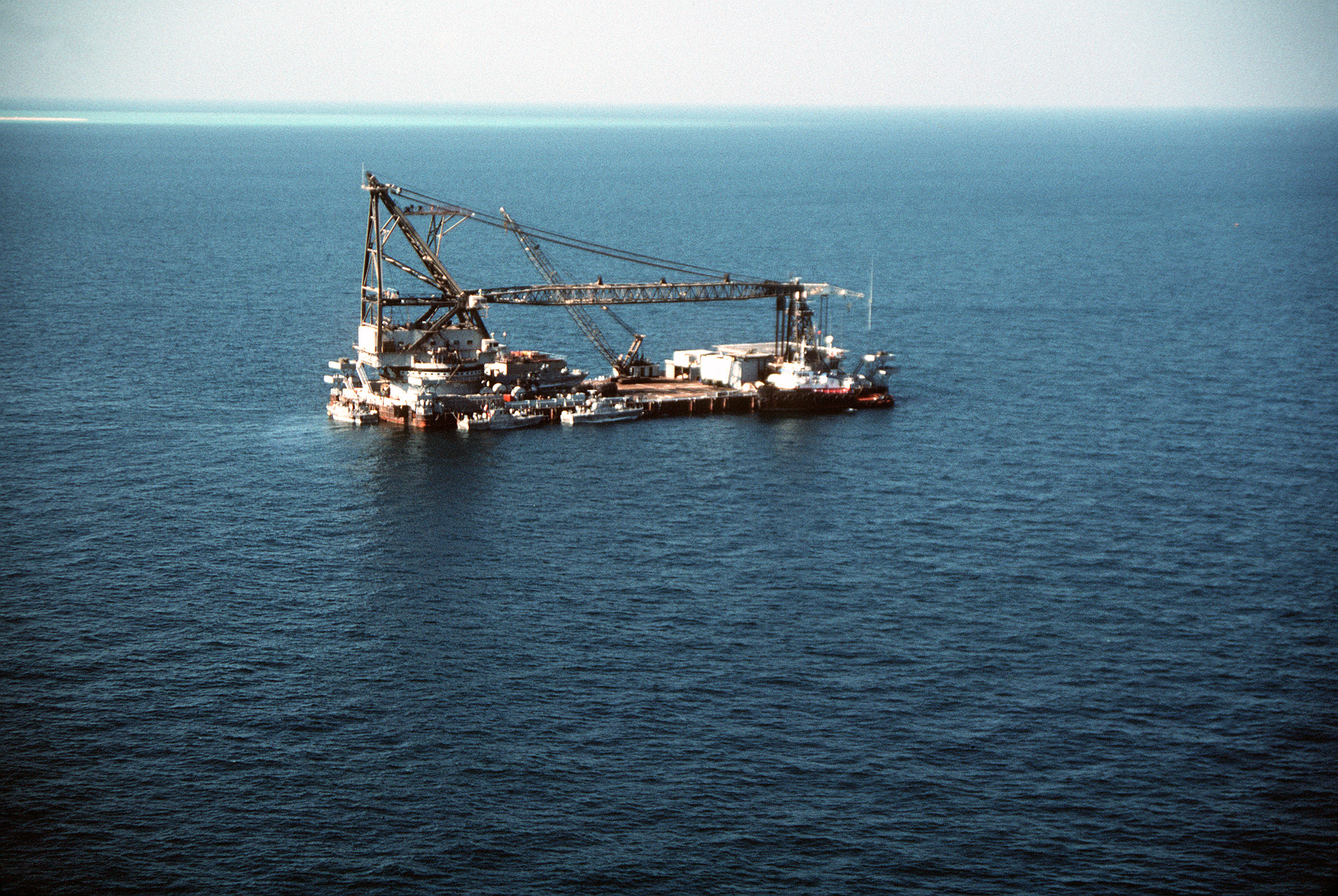 An aerial view of the leased barge Hercules with three PB Mark III patrol boats and the tugboat Mister John H tied up alongside. The barge is part of Operation Prime Chance, supporting U.S. Navy efforts to provide security for U.S.-flagged shipping in the Persian Gulf.